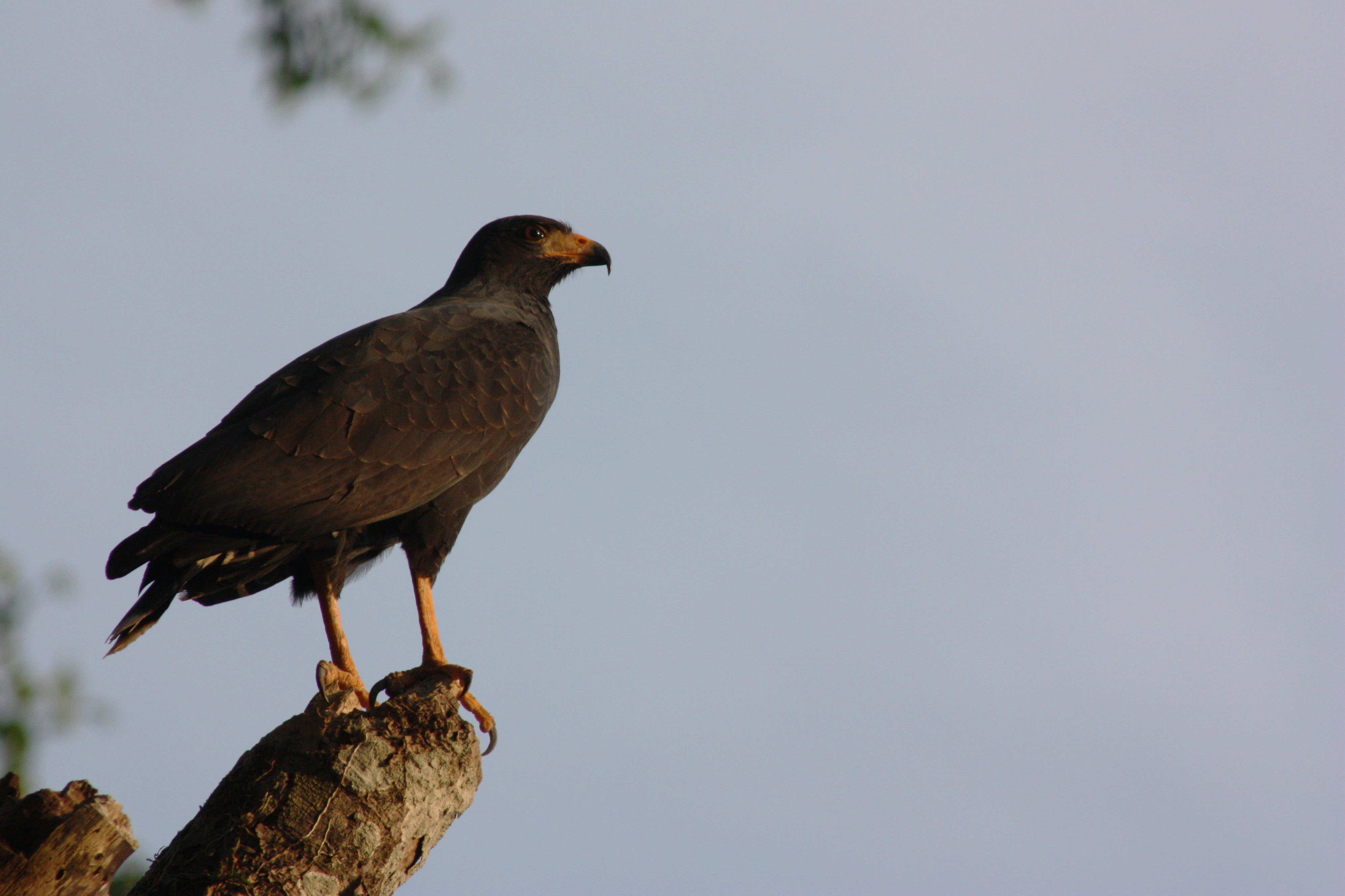 Mangrove black hawk (Buteogallus anthracinus subtilis), Osa Peninsula, Costa Rica